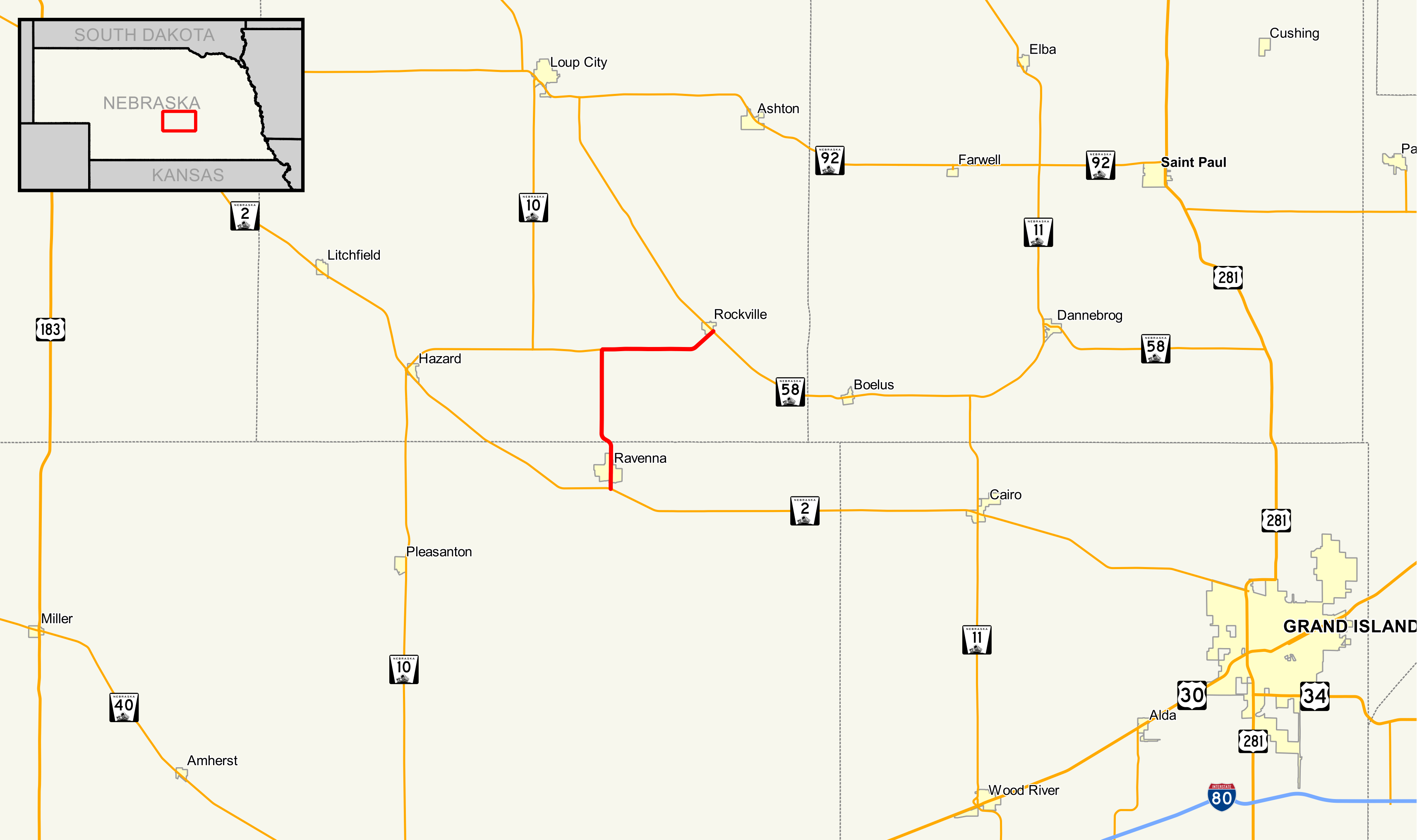 Map of Nebraska Highway 68 Data Sources: Nebraska Highways - - Dec 2016 Nebraska County Boundaries - - Dec 2016 Nebraska City Boundaries - - Dec 2016 This PNG graphic was created with QGIS